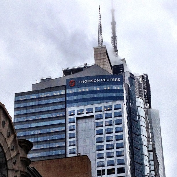 The Thomson Reuters building (also known as 3 Times Square) as seen from 8th Avenue in midtown Manhattan, New York City.